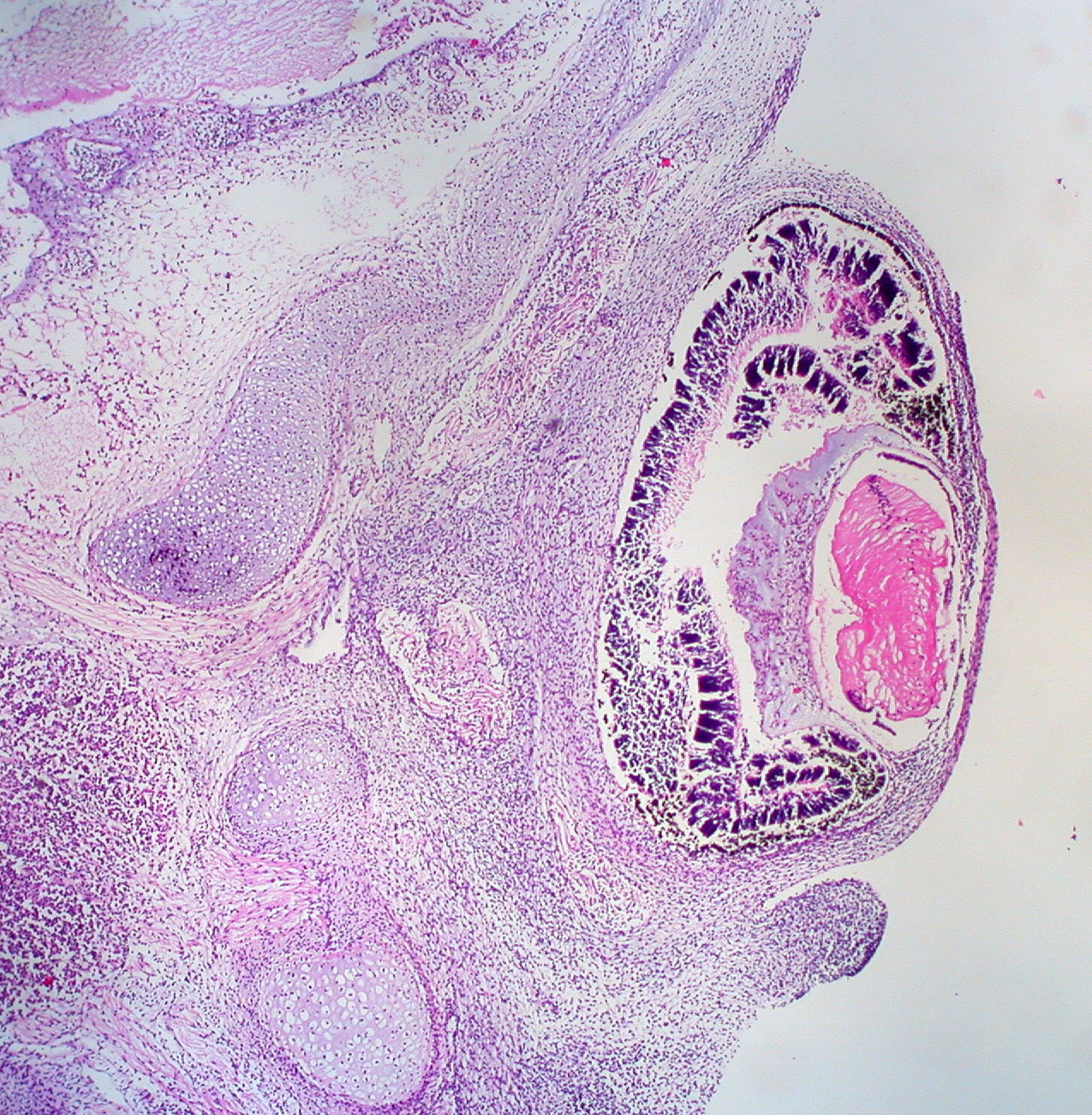 The black choroid layer behind the retina stands in stark contrast to the unpigmented tissues, the latter visible only because of the hematoxylin/eosin stain. This 2-cm embryo was passed spontaneously in the course of a miscarriage. It was much better preserved than is usual in such cases. Pathological and histological images courtesy of Ed Uthman at flickr.